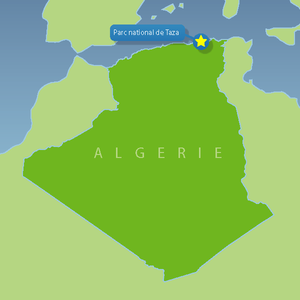 Map of National parks of Algeria, Taza National park